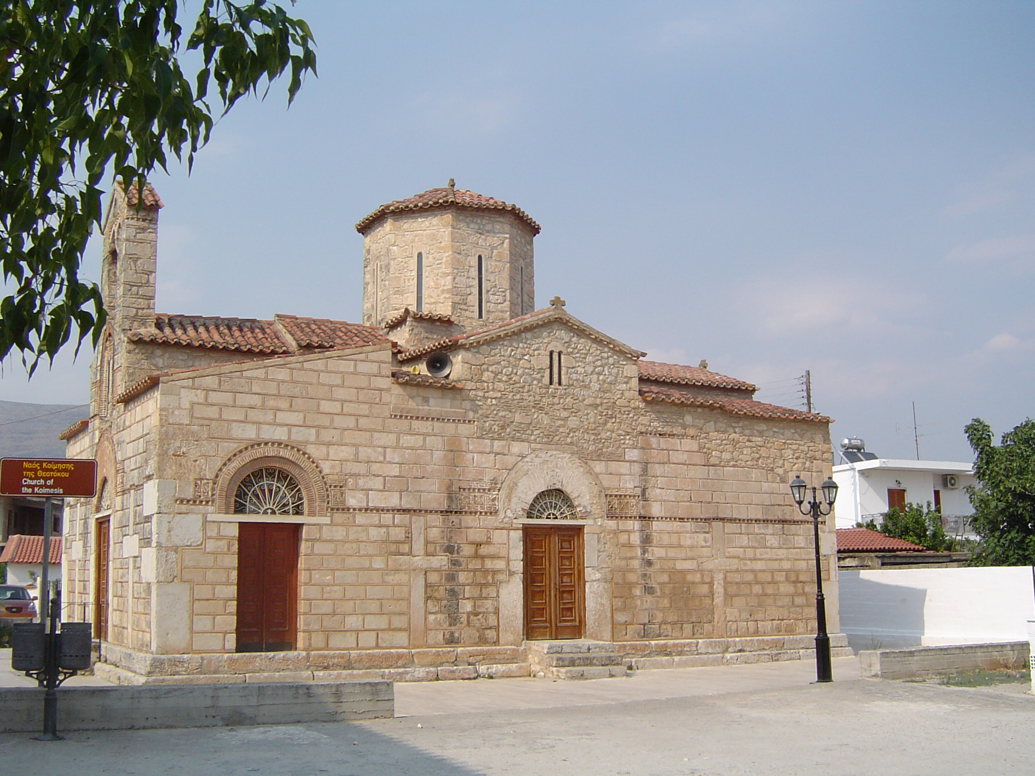 Church of Kimisis Theotokou in Neo Ireo, Argos-Mycenae, Greece